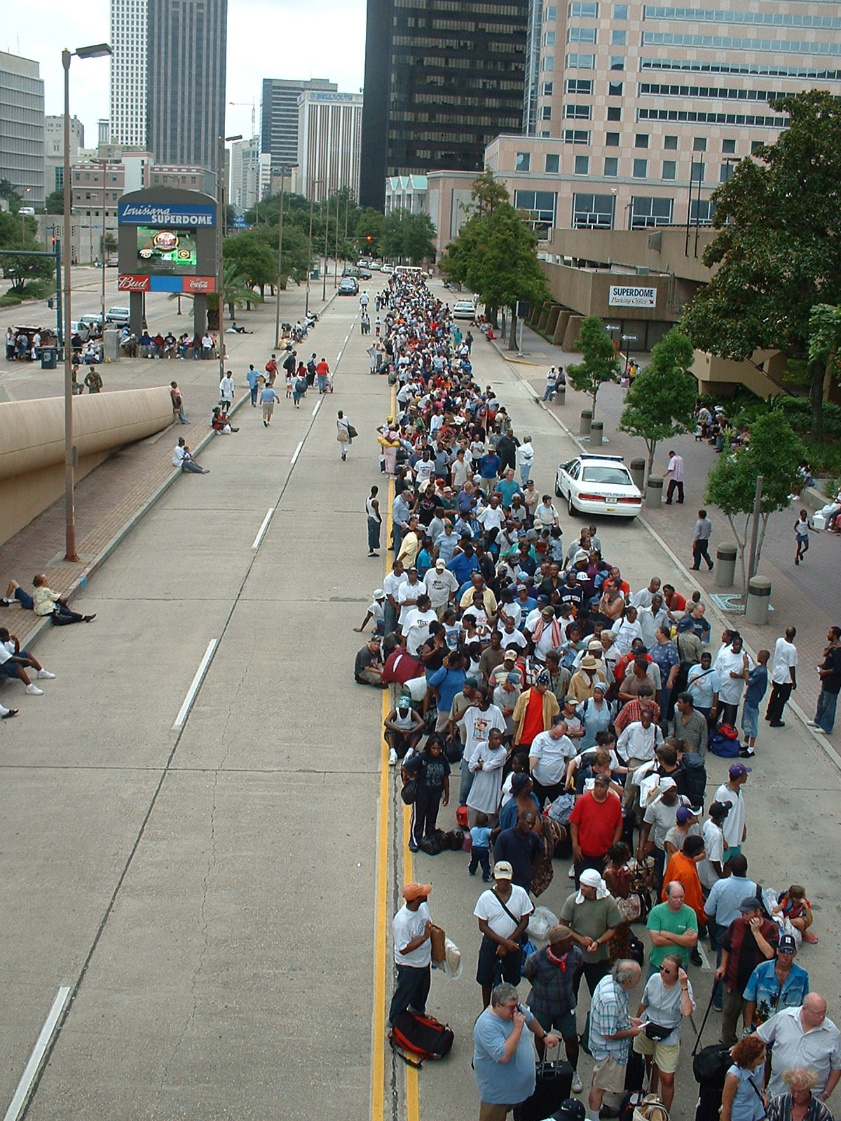 New Orleans, Louisiana. August 28, 2005 — Residents are lining up with a few belongings to get into the Superdome which has been opened as a hurricane shelter in advance of Hurricane Katrina. Most residents have evacuated the city and those left behind do not have transportation or have special needs. Photo by Marty Bahamonde, FEMA.